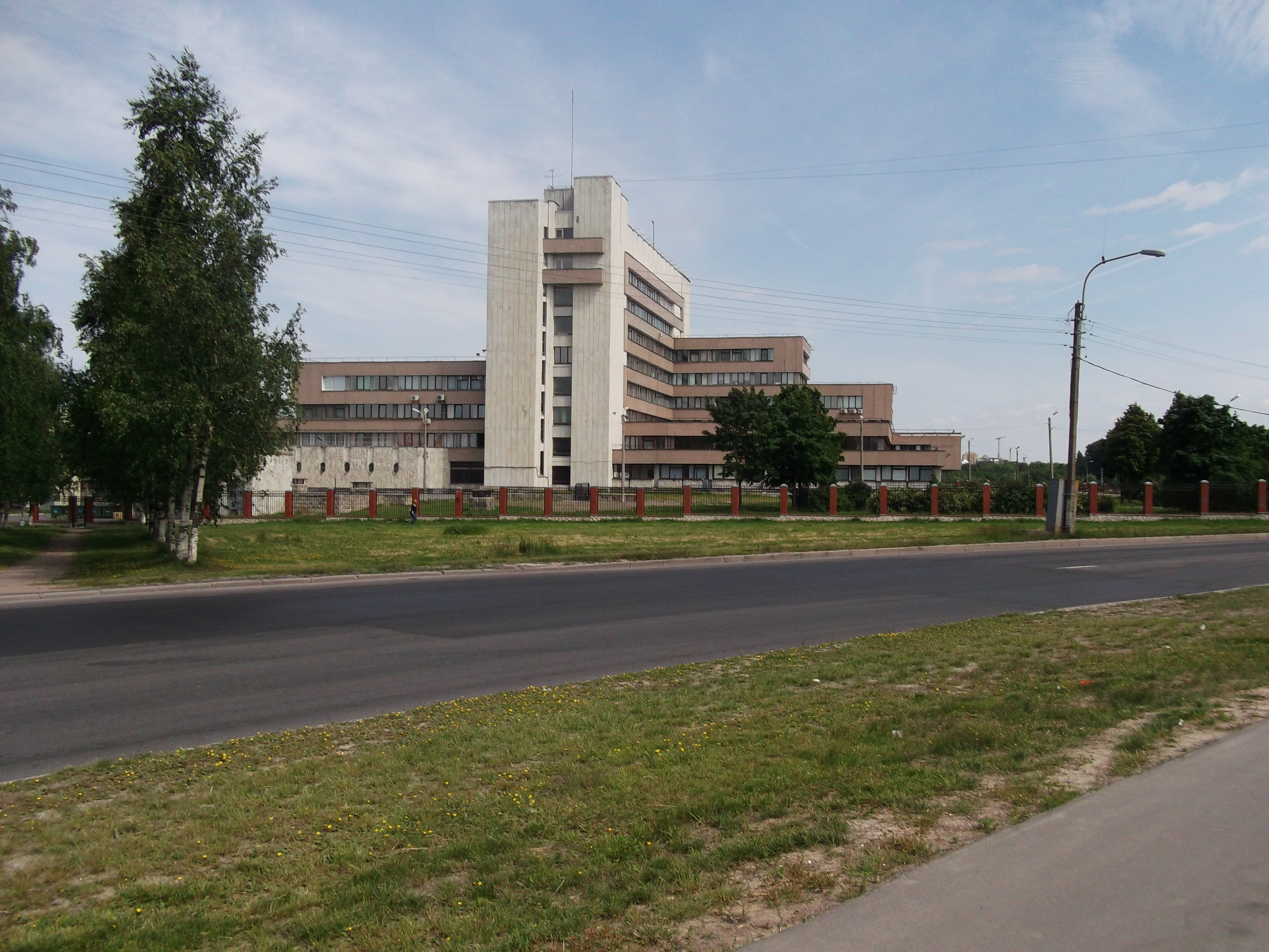 Administration of Krasnoselsky district Saint Petersburg